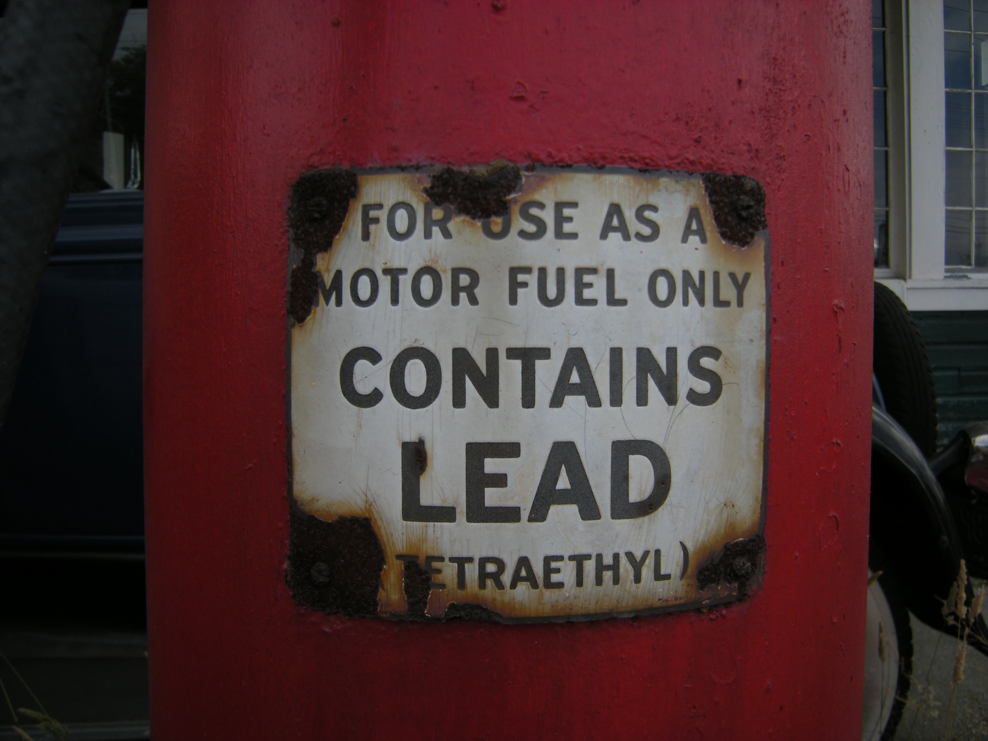 Lead warning on a gas pump at Keeler's Korner, Lynnwood, Washington. Keeler's Korner, a former grocery store and gas station (built 1927) listed on the National Register of Historic Places, listed 1982, NRHP listing #82004287.